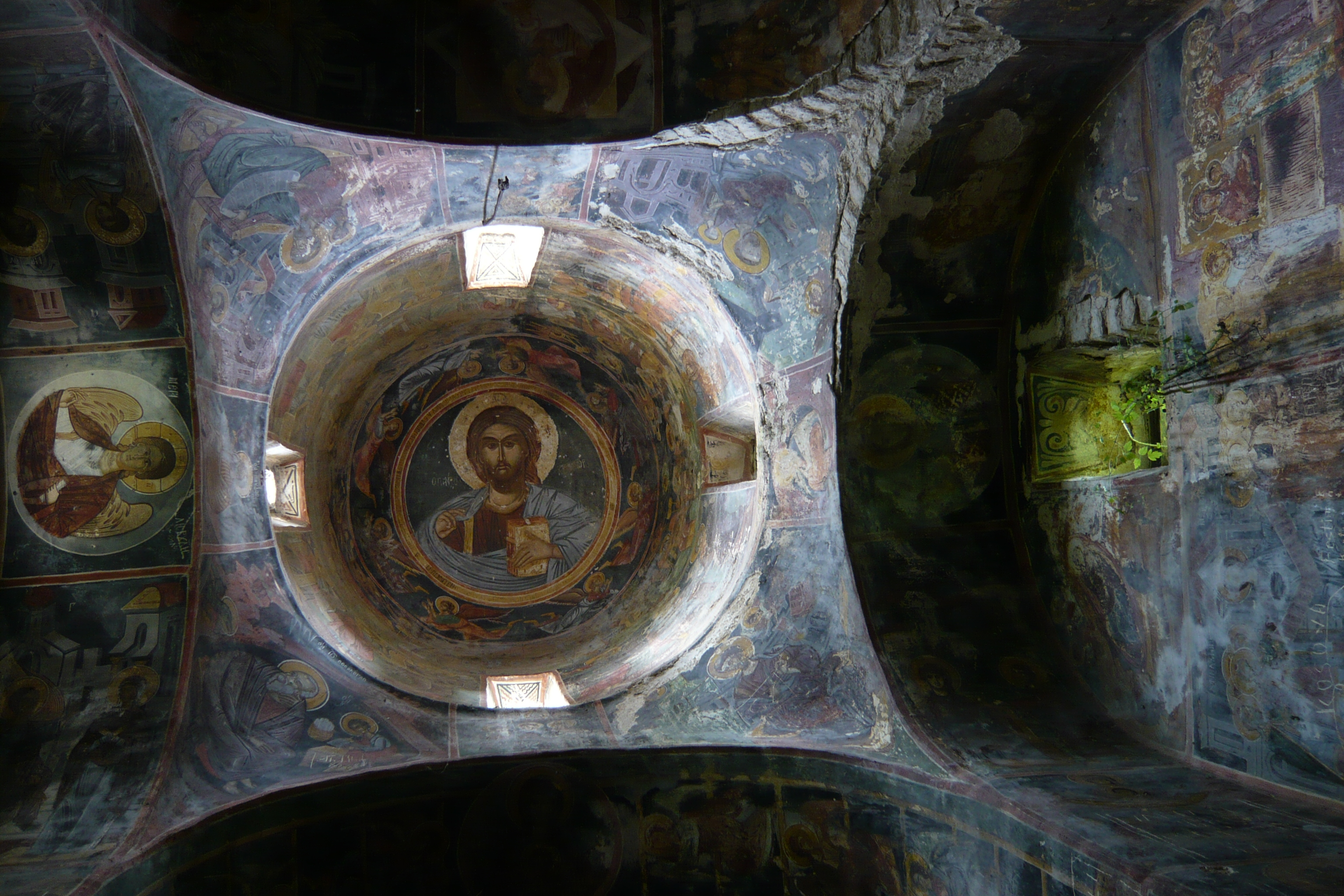 Interior view of the Çatistë monastery church